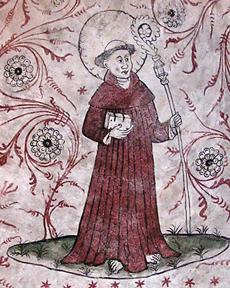 Saint David in Överselö kyrka